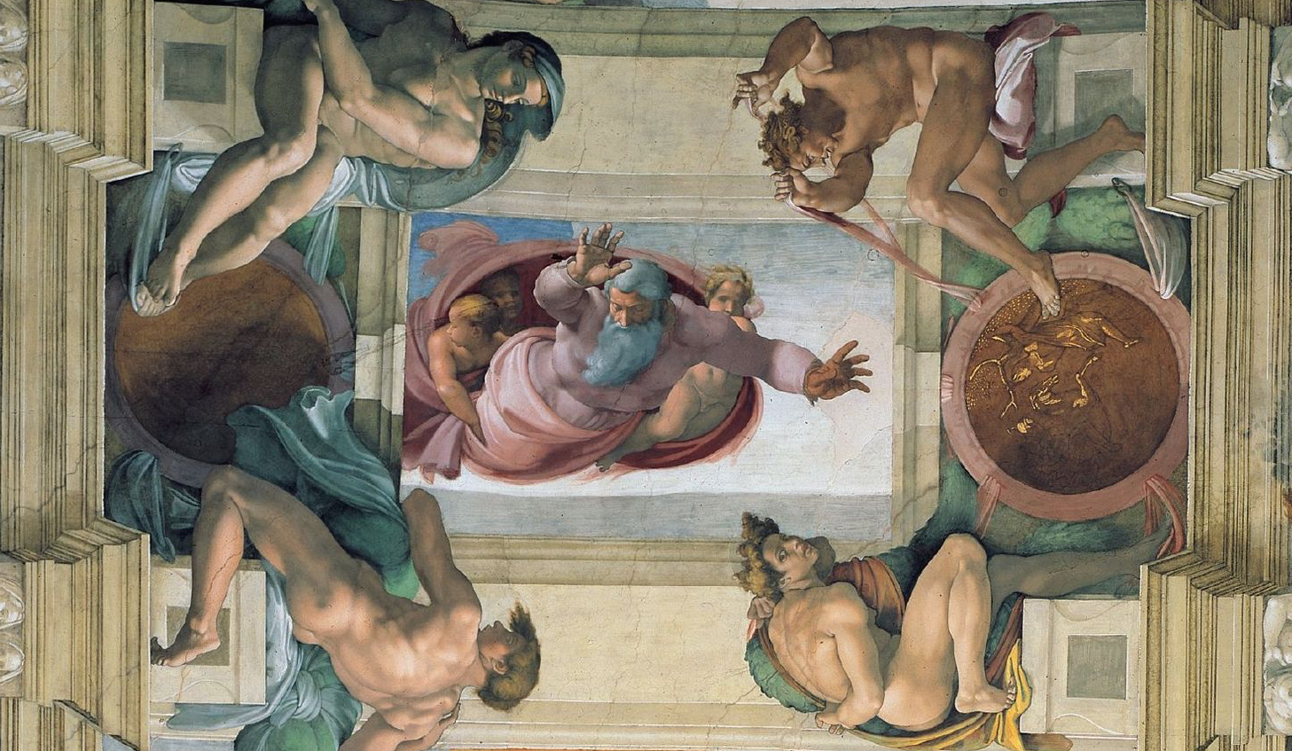 Sistine chapel ceiling.